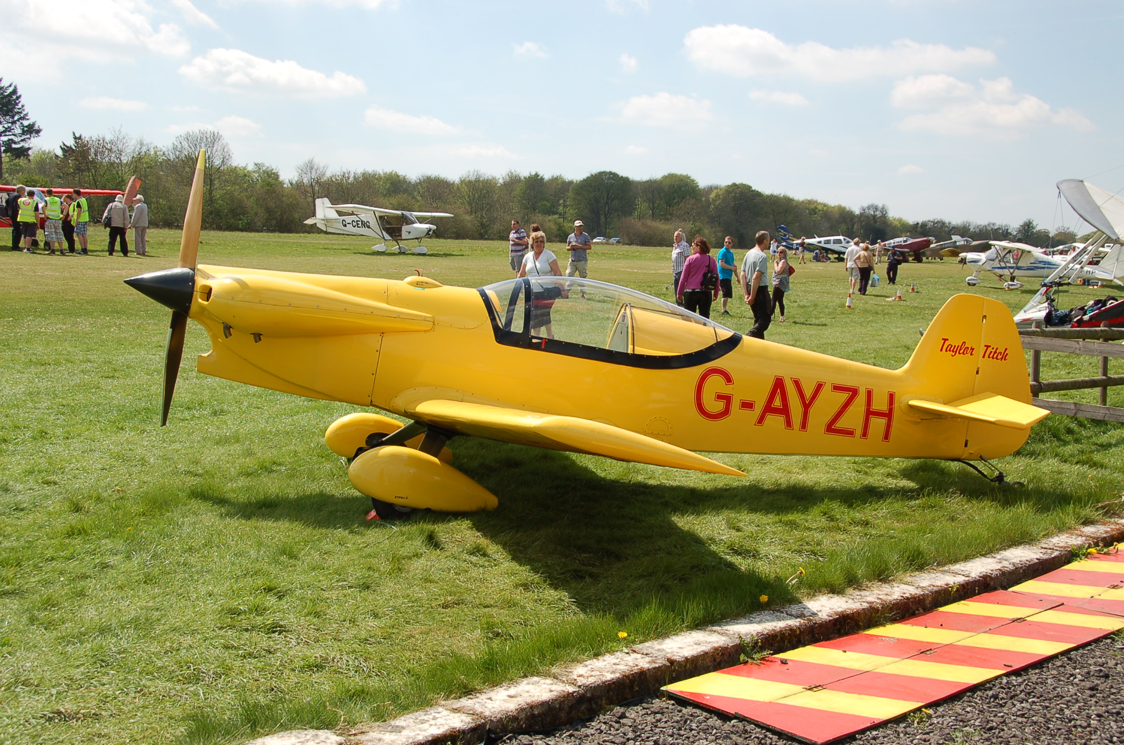 Taylor Titch at Popham,Hants.,06/05/13.